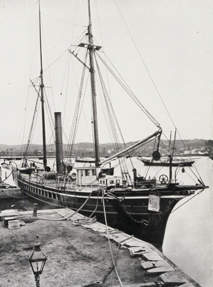 Coast and Geodetic Survey steamer Blake. In service 1874-1905. Conducted classic Gulf Stream studies under J. E. Pillsbury. Many innovations on this ship -- steel cable for deepsea dredging and Sigsbee Sounding Machine, Pillsbury current meter, and deepsea anchoring techniques. In: Deep-Sea Sounding and Dredging, by Charles D. Sigsbee. Call Number GC75.S53 1880.